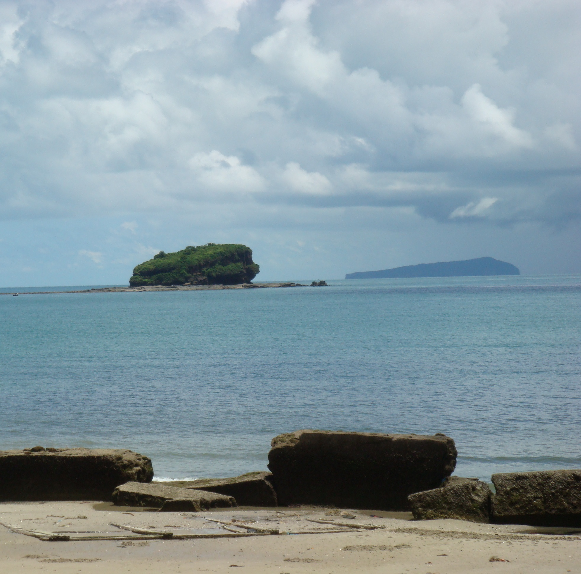 the pig rock and Xieyang Island, taken from the south coast of Weizhou Island